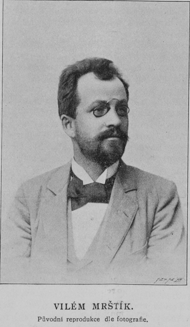 Portrait of Vilém Mrštík (1863 - 1912), Czech writer and playwright.